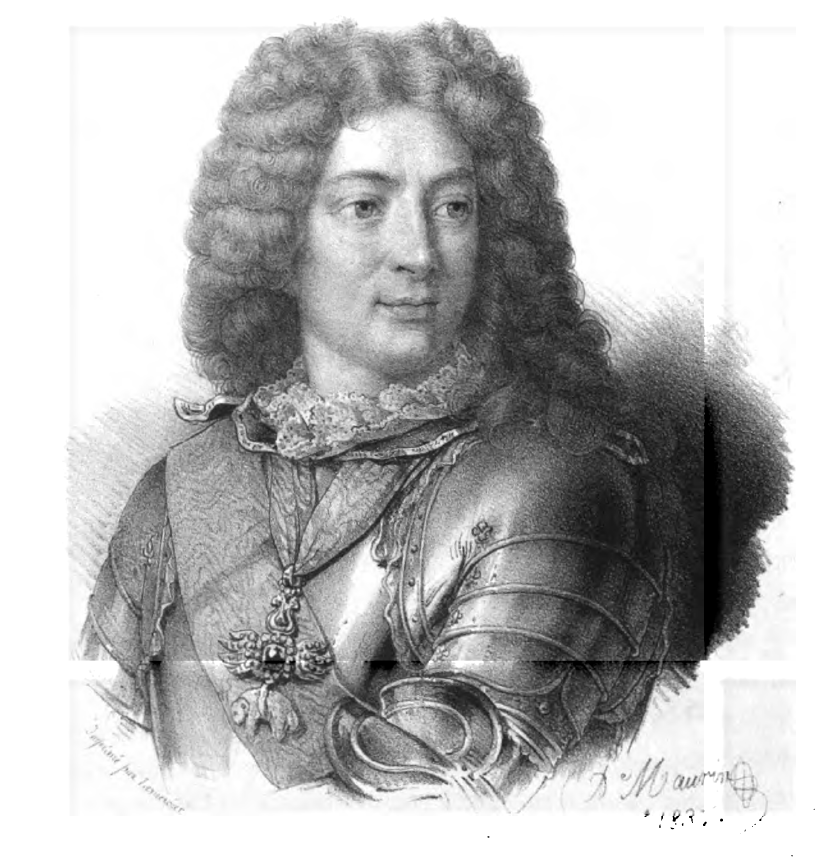 Louis Alexandre, Count of Toulouse